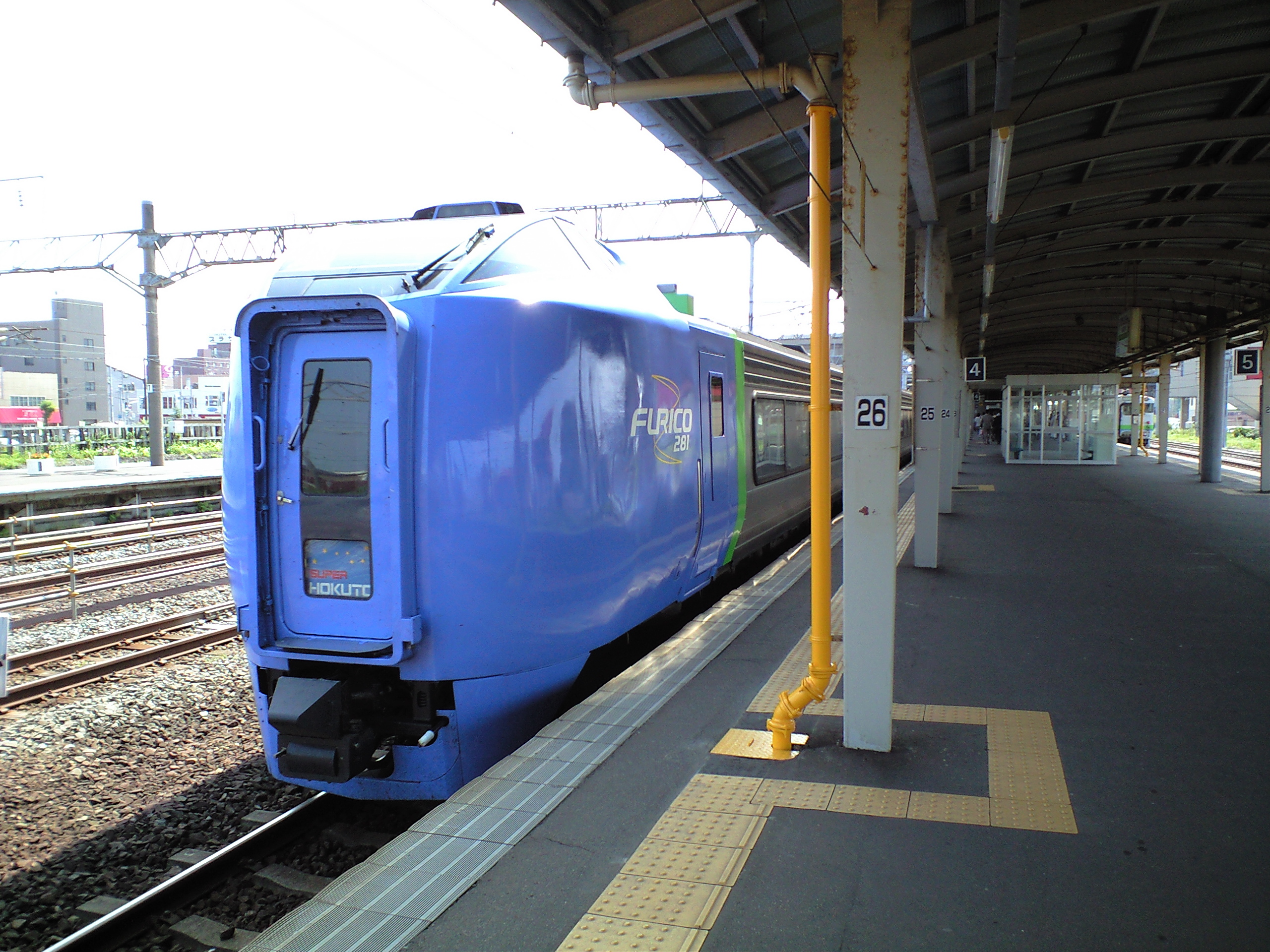 Limited express train Super Hokuto for Hakodate, at Higashi-Muroran Station